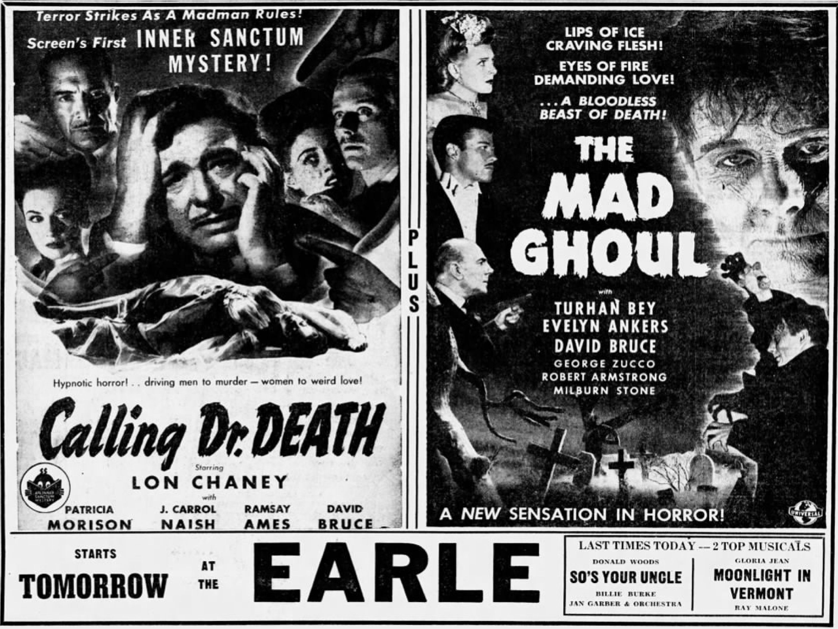 Earle Theater advertisement for the American films Calling Dr. Death (1943) and The Mad Ghoul (1943) - 14 Jan. 1944 Morning Call, Allentown PA